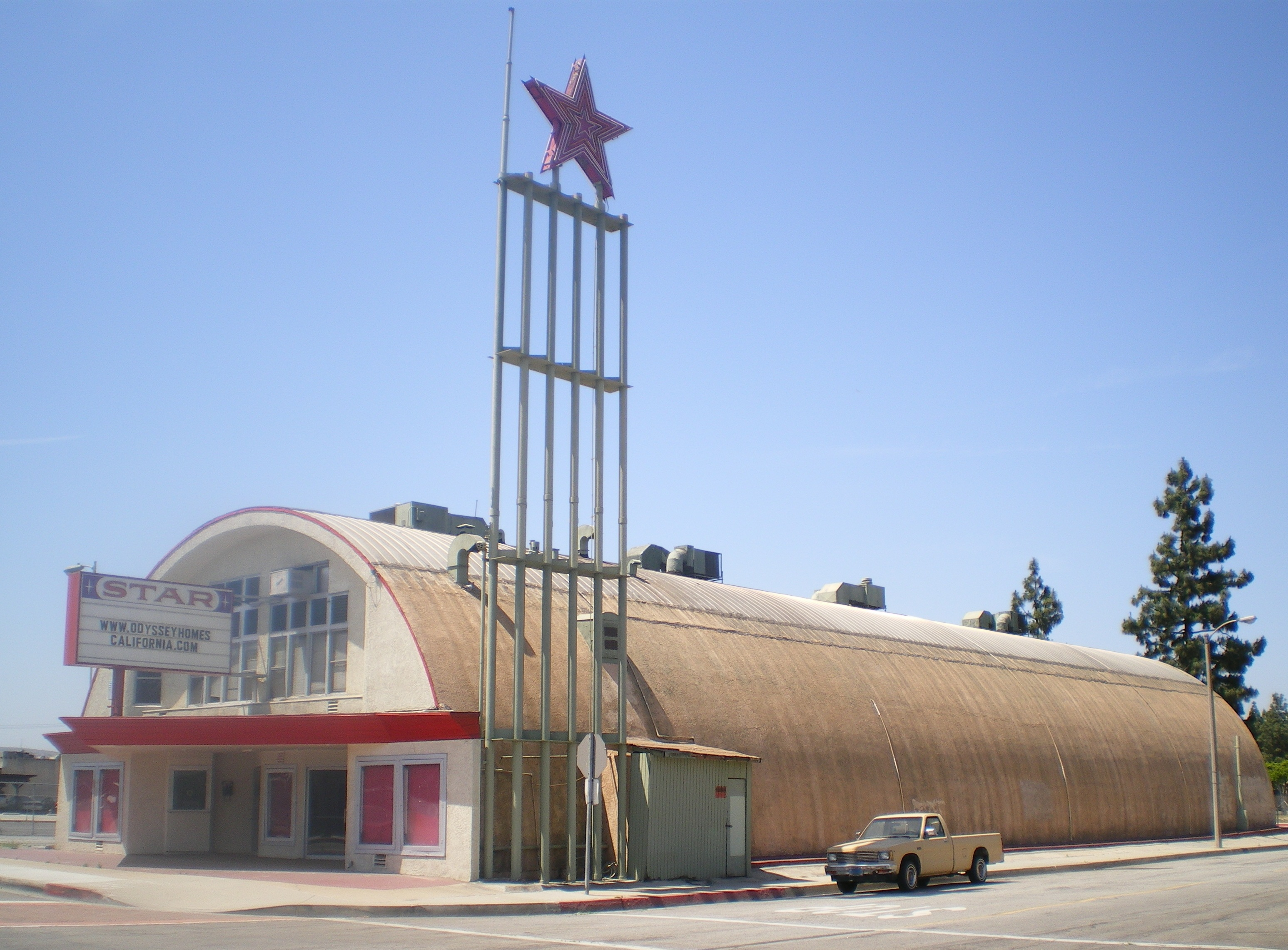 Star Theater, 145 N. 1st St La Puente, CA 91744